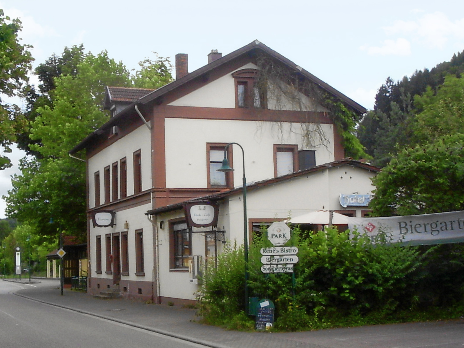 Rodalben train station.